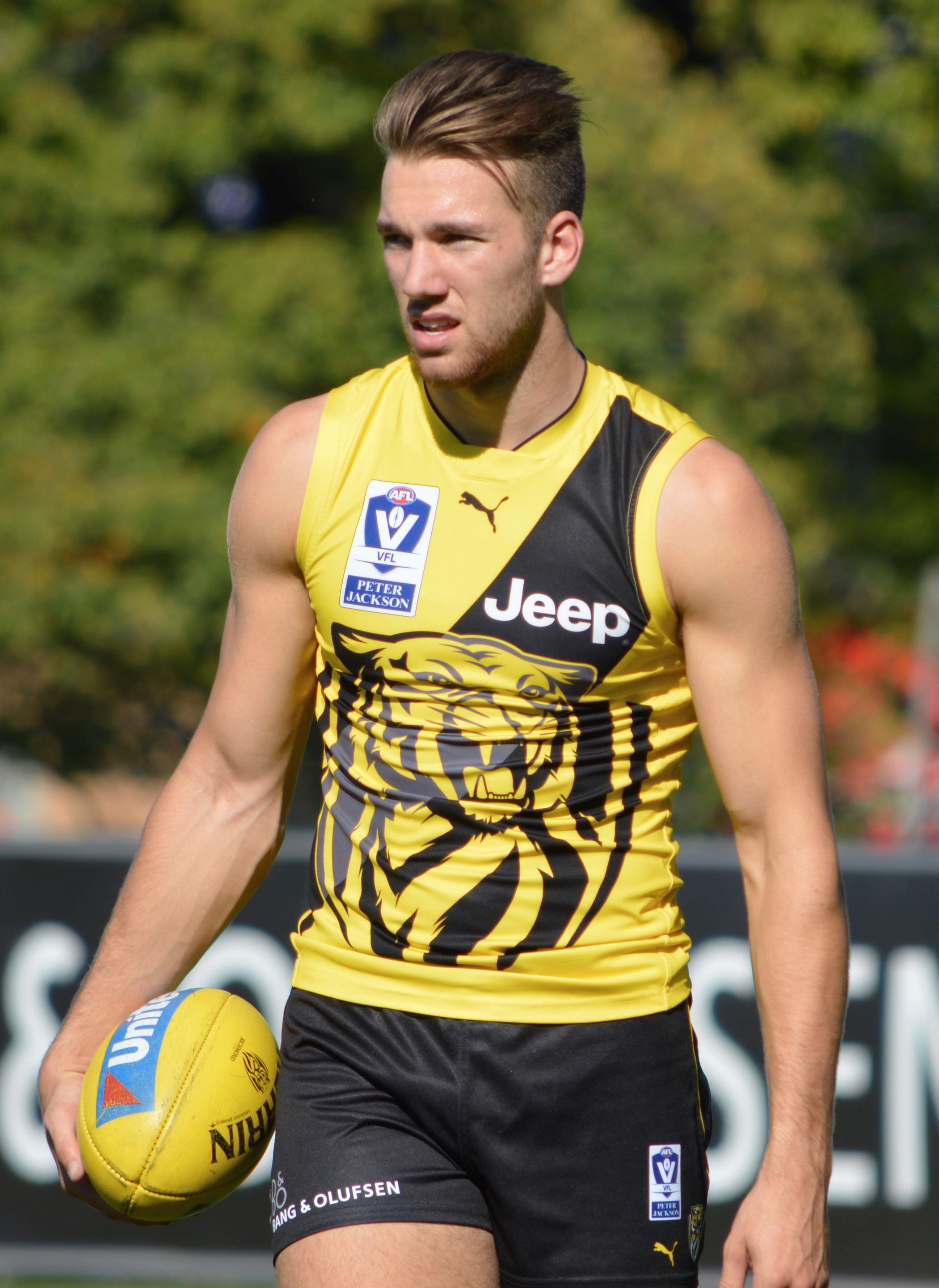 Noah Balta with Richmond during a VFL practice match against the Northern Blues in March 2018